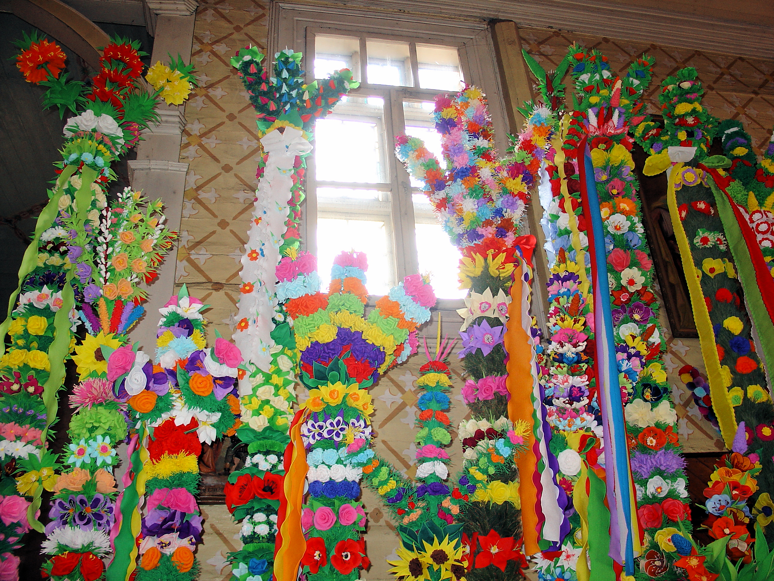 Palm Sunday in Łyse, artificial palm competitions